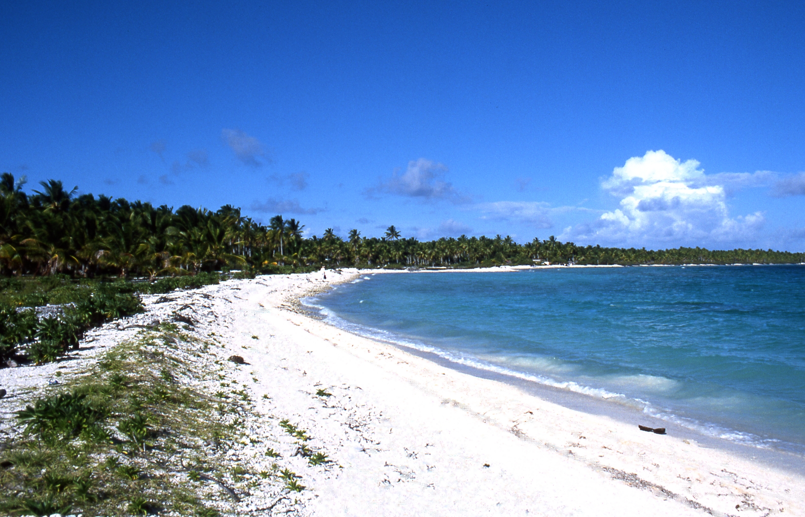 Coast of Mataiva Atoll, Tuamotu Archipelago, French Polynesia